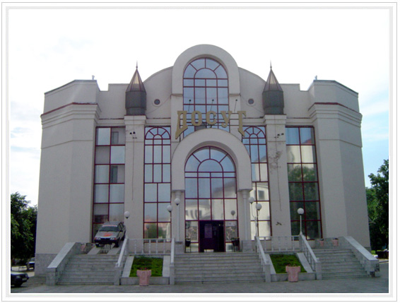 Cosino and a Bowling Center, Armavir